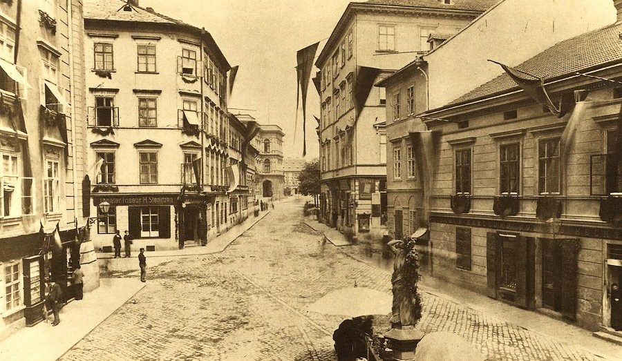 Česká street, Brno, Czech Republic